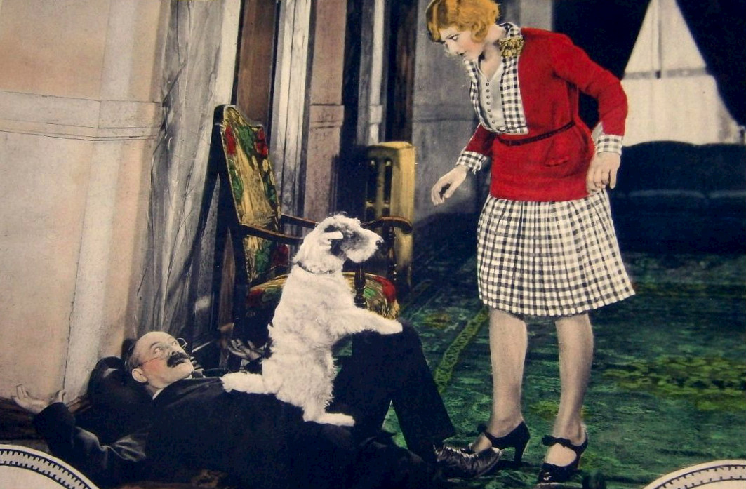 Lobby card for the 1927 film Weary Winnie. Weiss Brothers-Artclass Pictures produced a series of these film shorts between 1926 and 1928. Ethelyn Gibson portrayed Winnie Winkle in all of them. The item has no copyright markings on it as can be seen in the links above and the uncropped copy. At bottom-under Gibson's left foot-is Made in USA. There are no other marks.